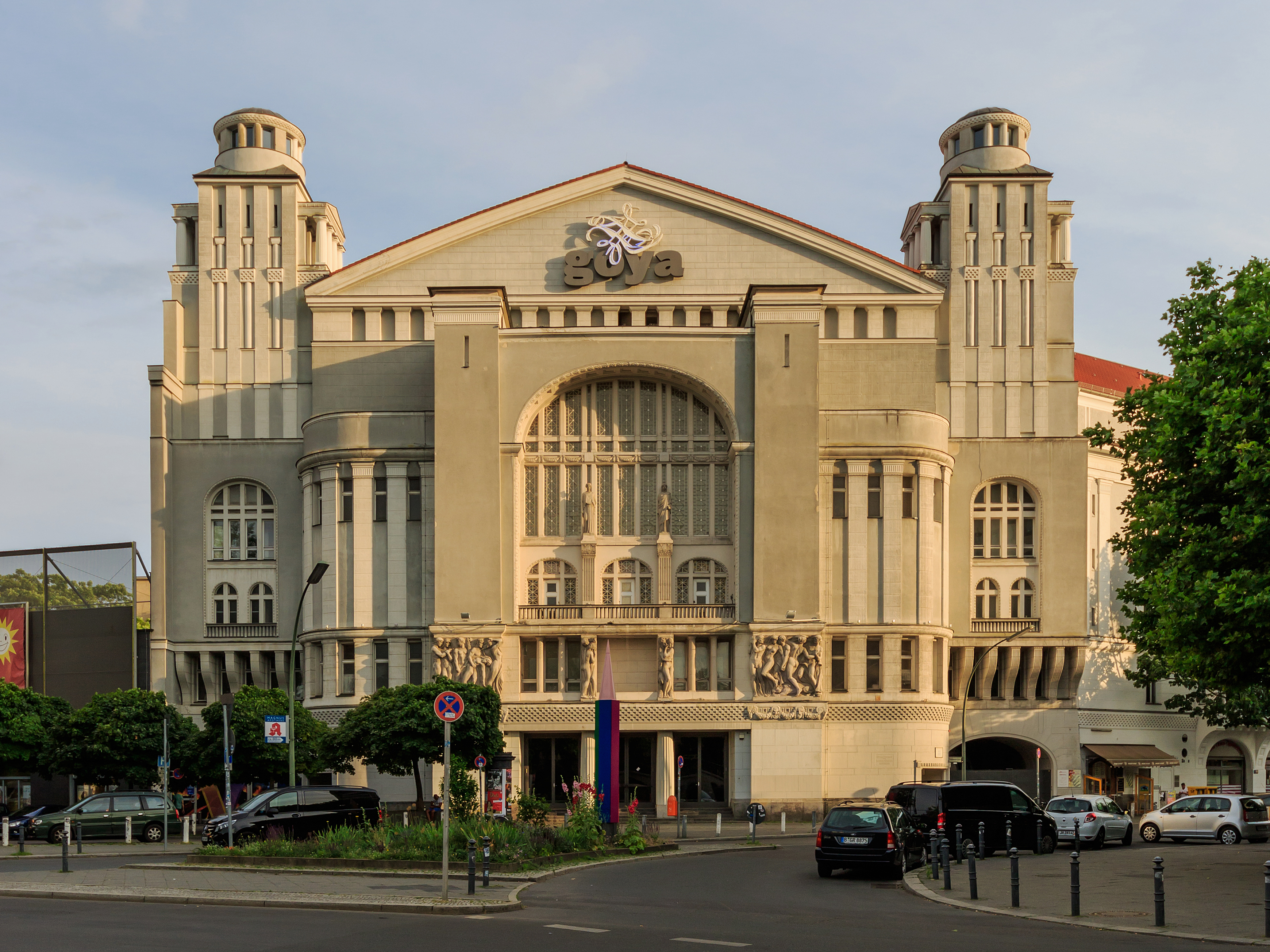 New Theatre building at Nollendorfplatz in Berlin (Germany)